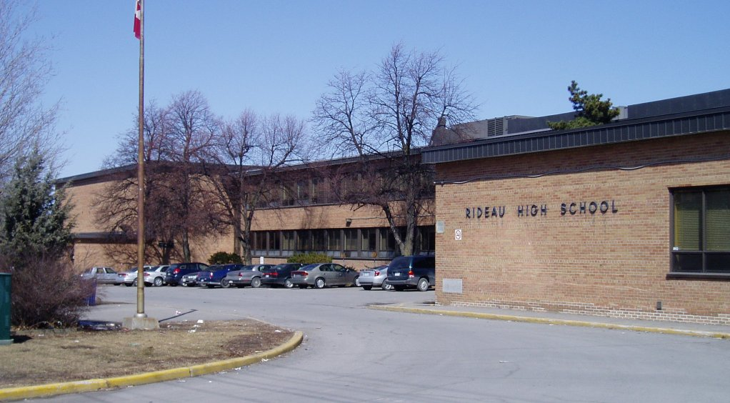 Taken by SimonP in March 2005.